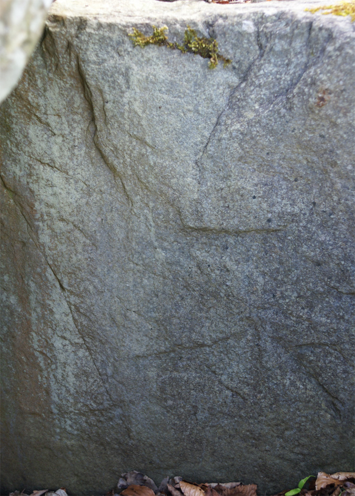 Ri Cruin Cairn, Kilmartin Glen, Scotland - axehead shaped carvings in outer cist